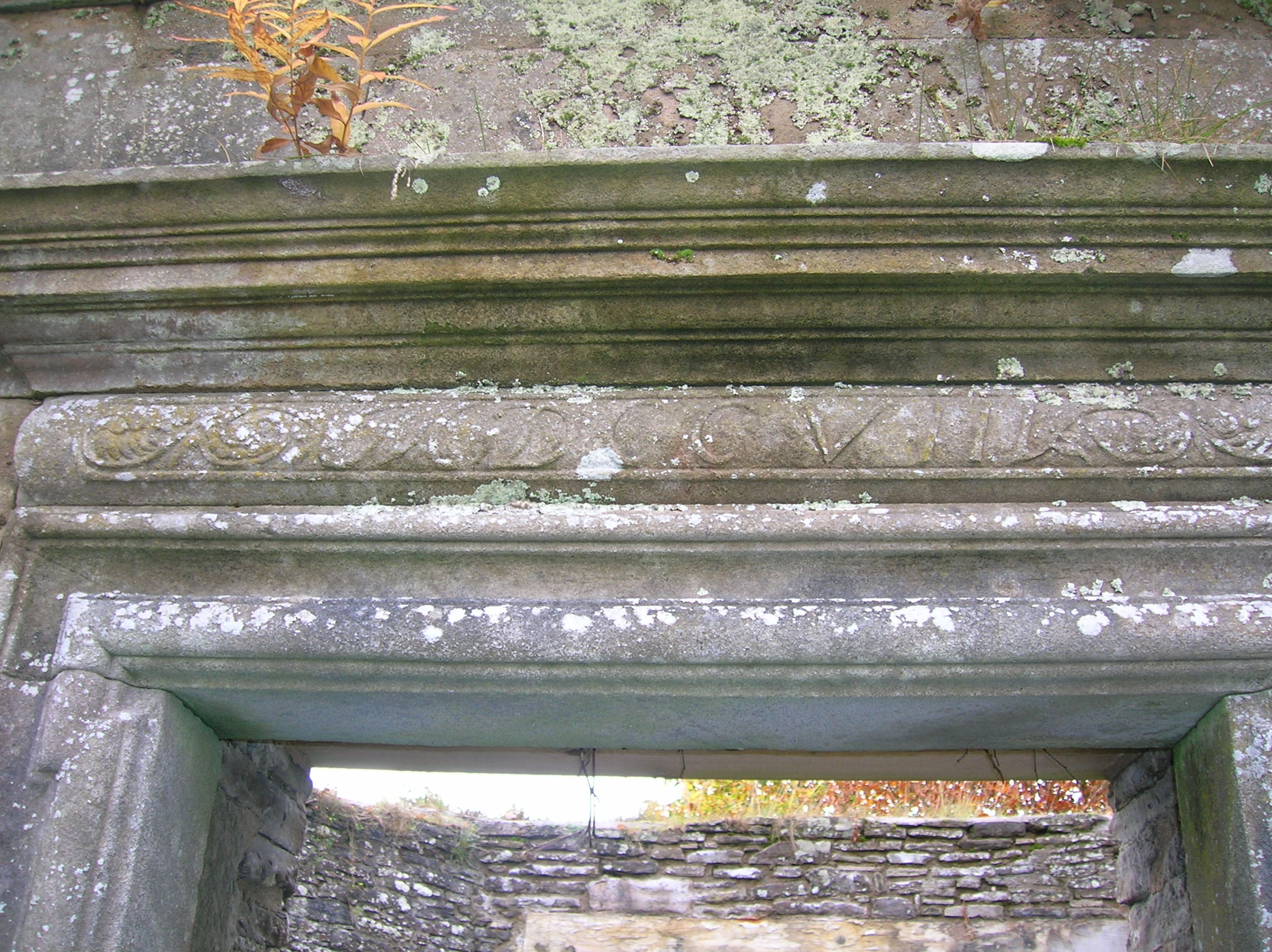 The 1708 datestone at the Bonnington pavilion or Hall of Mirrors, New Lanark, Scotland.